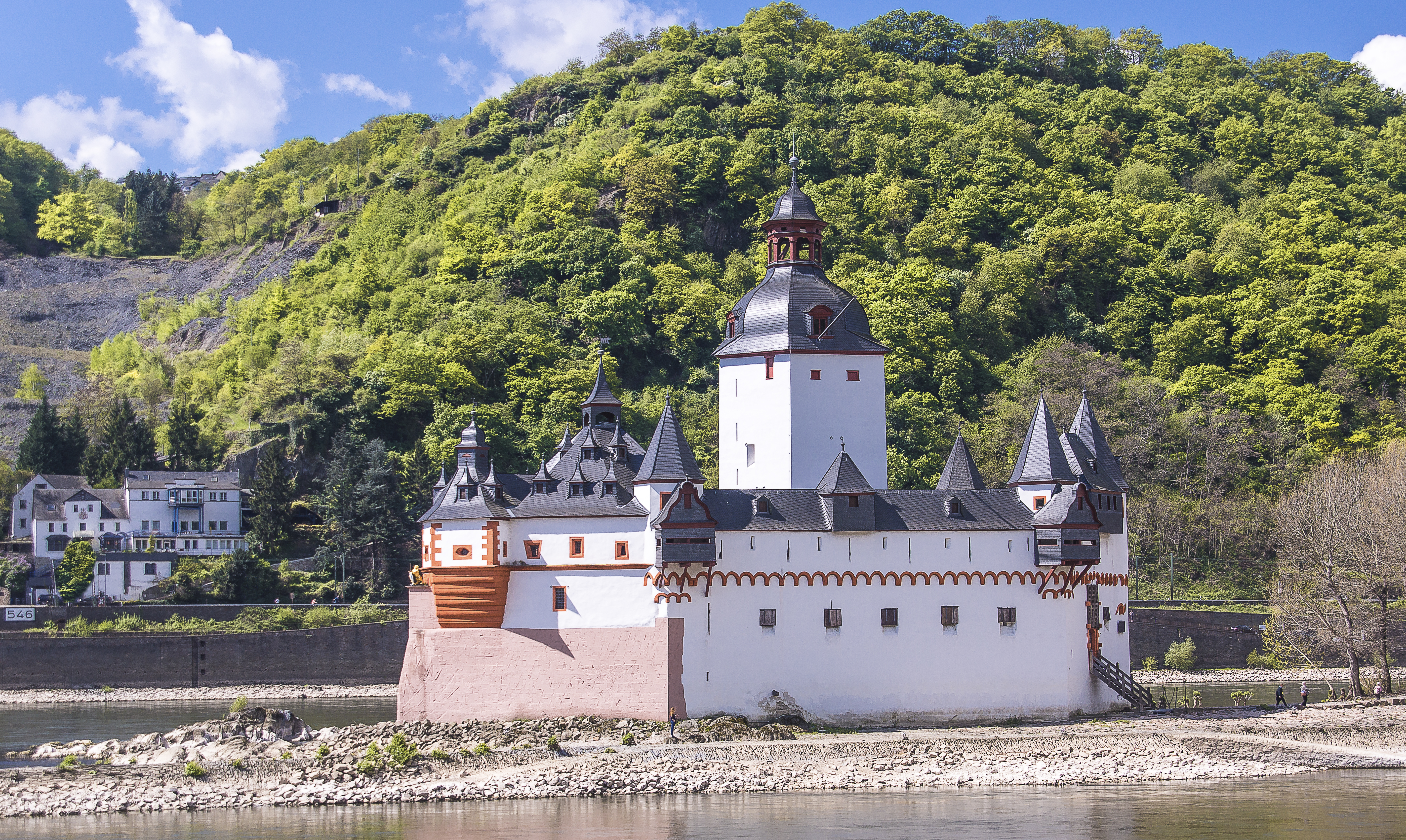 Castle Pfalzgrafenstein photografed from Kaub at righthandsite of Father Rhine